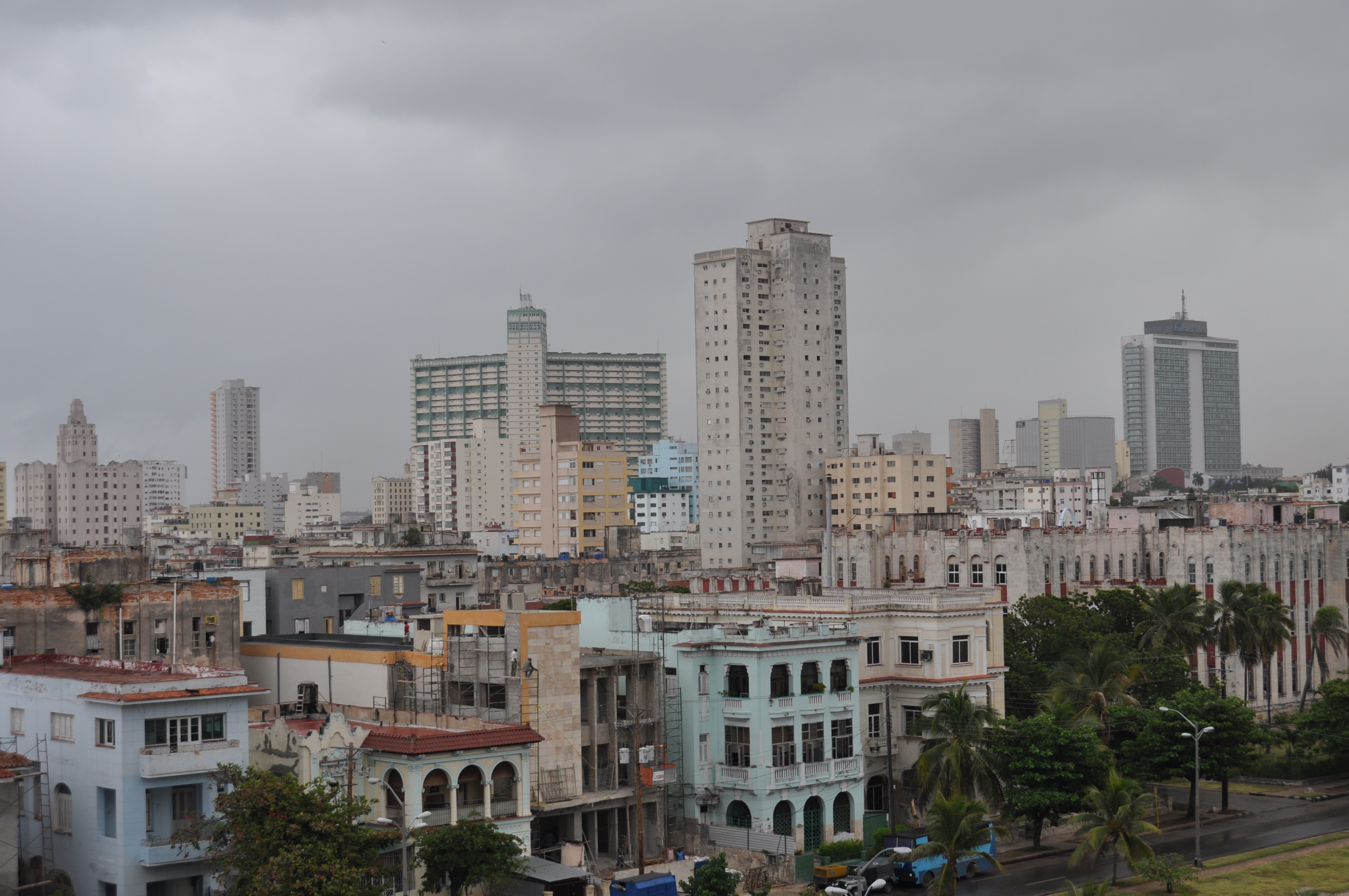 Panorama view of eastern Vedado / Havana